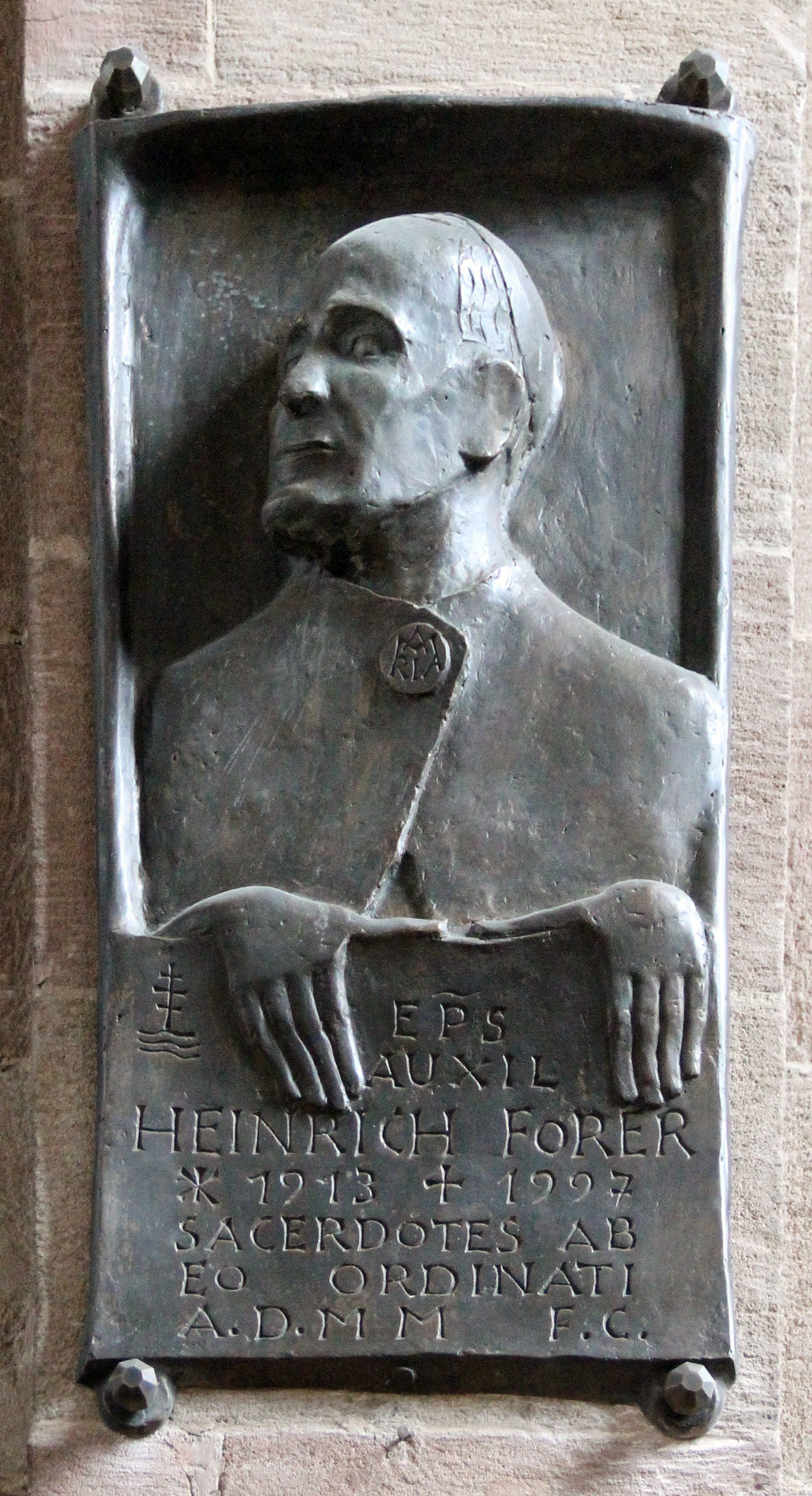 Memorial plaque, Heinrich Forer, Piazza Duomo, Bozen, Italy